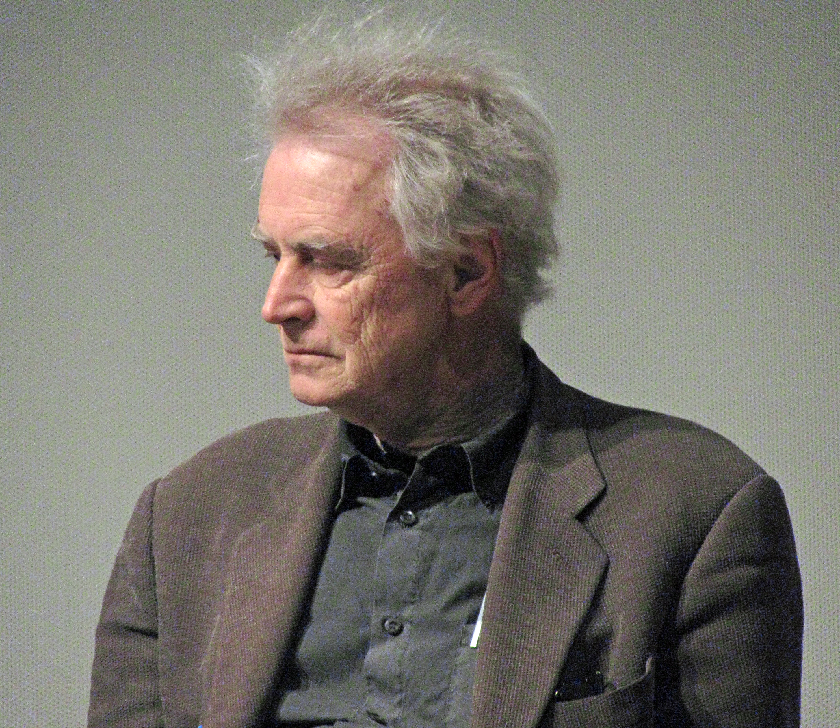 Thom Andersen at the Celebration of the 35th Anniversary of the Founding of Media Study (University at Buffalo)